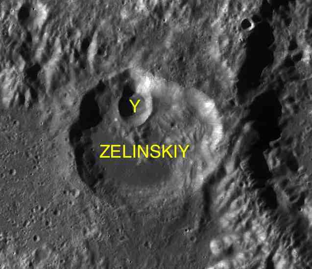 Part of the chart LAC-103 used for the presentation